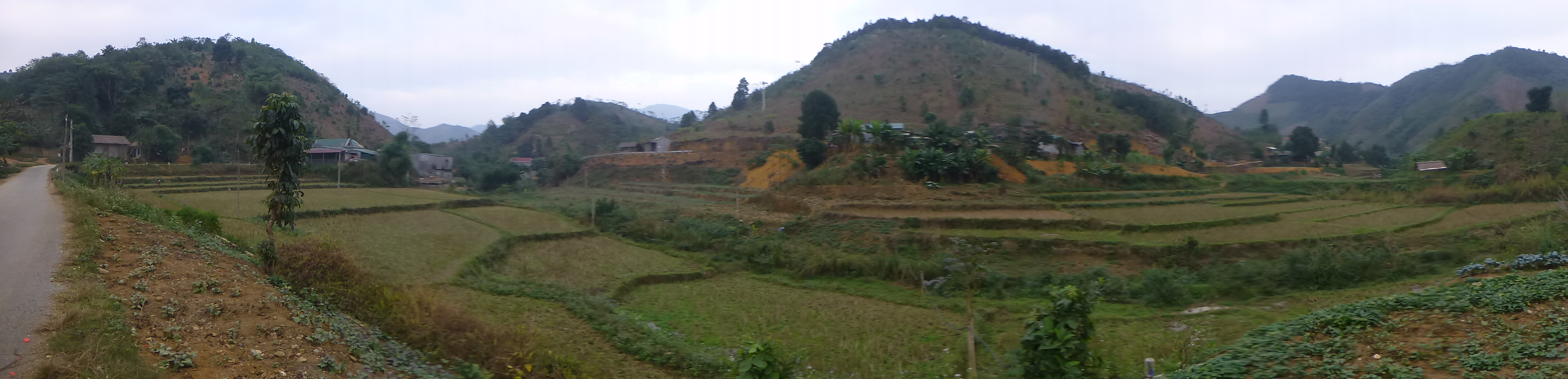 A rural landscape in the Red River Valley in Kim Sơn Rural Commune, Bảo Yên District, Lao Cai Province. (Along the rural road between Phố Lu and Bao Ha).